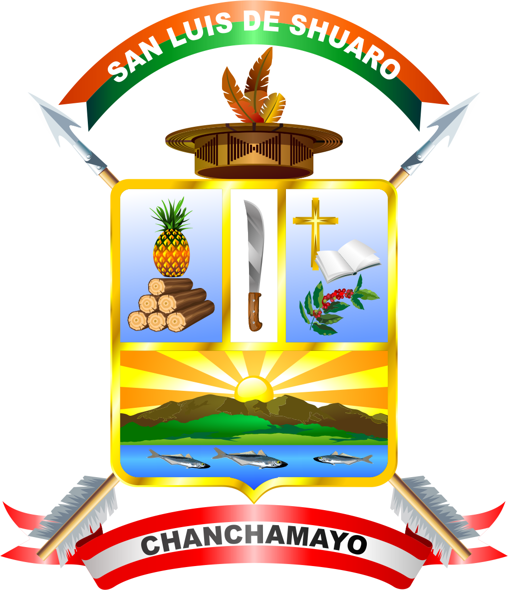 Coat of arms of the district of San Luis de Shuaro - Province of Chanchamayo - Junín Region